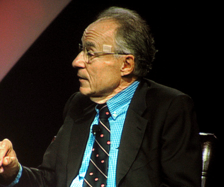 I took the picture at a conference where Arno Penzias was a member of the panel.